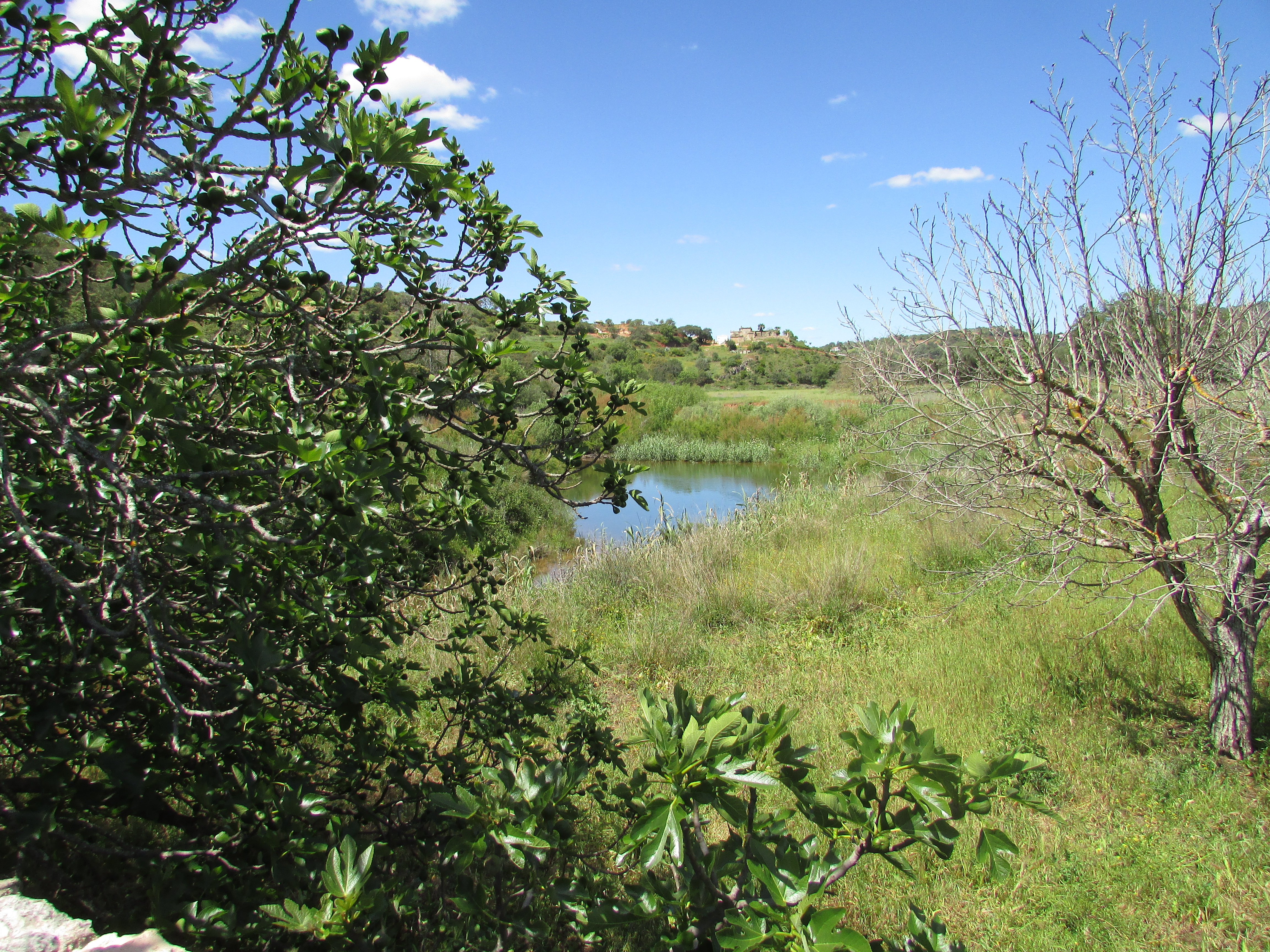 The confluence of the rivers Mercês and Benémola to form the Algibre River. The confluence is near Querenca, Loulé, Algarve, Portugal.